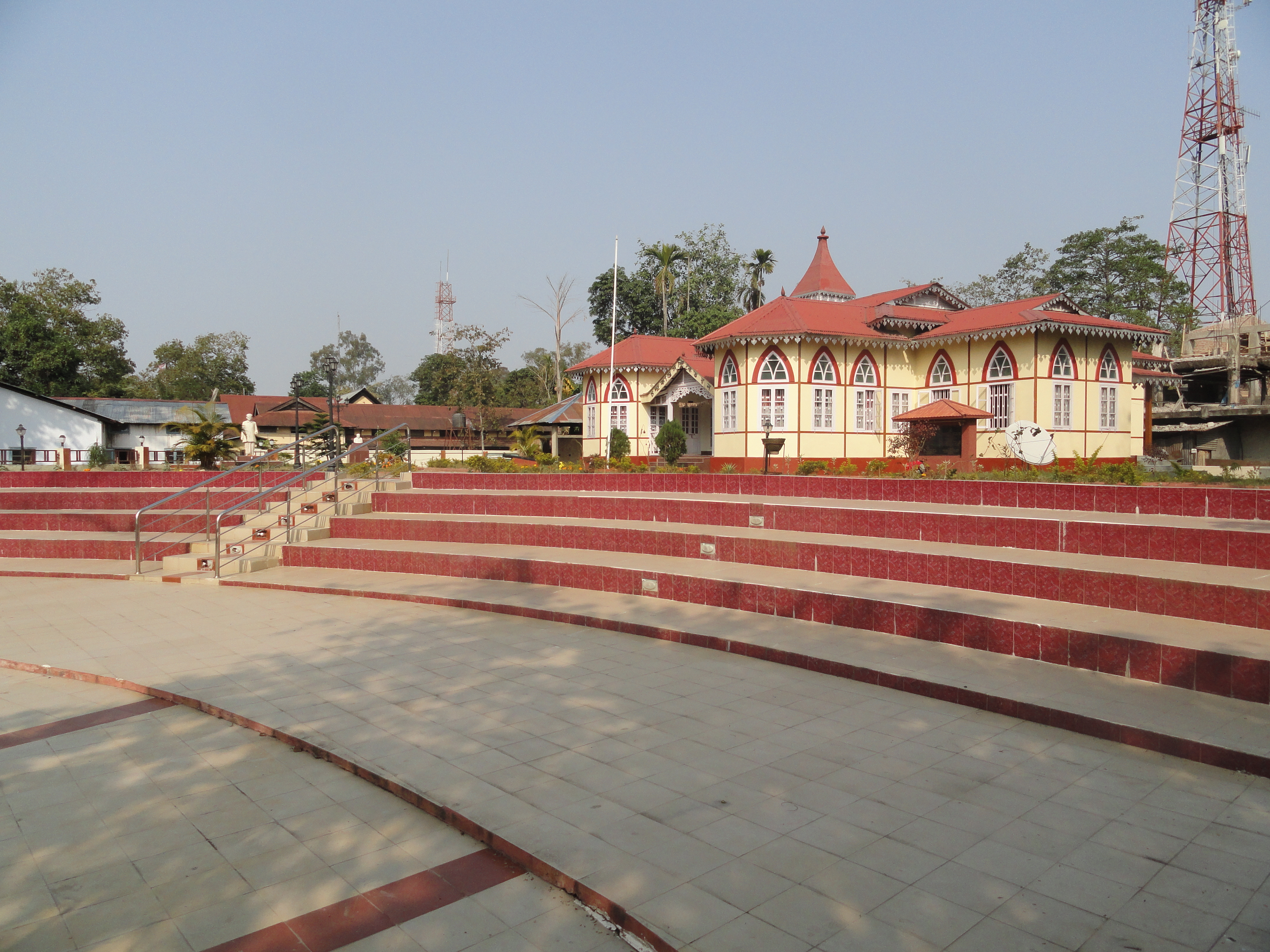 সাহিত্য সভাৰ মুখ্য কায্যালয় চন্দ্ৰকান্ত সন্দিকৈ ভৱনৰ এক দৃশ্য